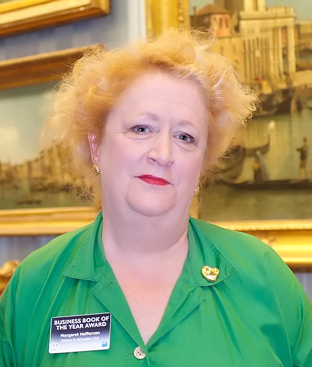 Ms Margaret Heffernan, Author